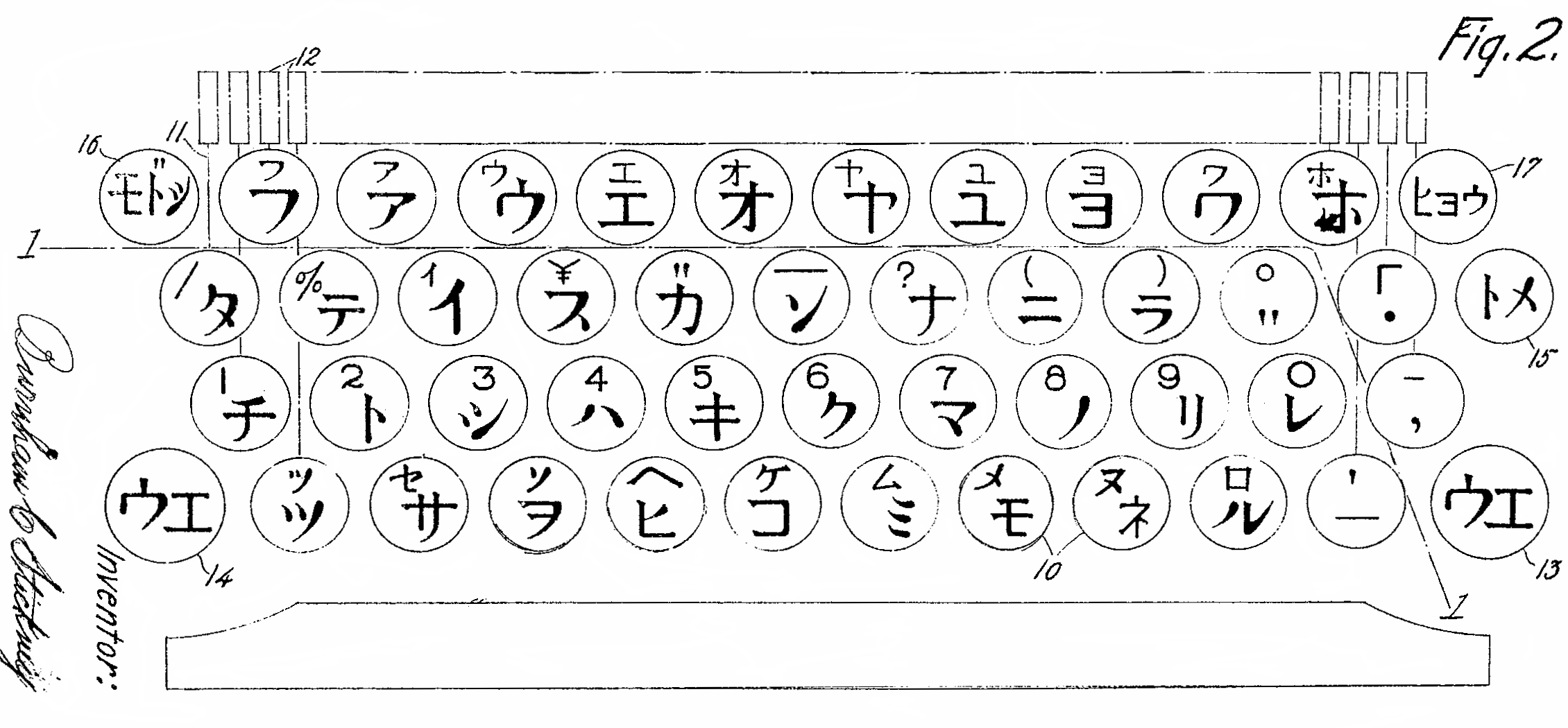 Four-bank keyboard for Japanese katakana typewriters. Burnham Coos Stickney at the Underwood Typewriter Company designed this keyboard in 1923 for Japanese businessman Yoshitaro Yamashita. The JIS X 6002:1980 keyboard layout for computers was an offspring of it.